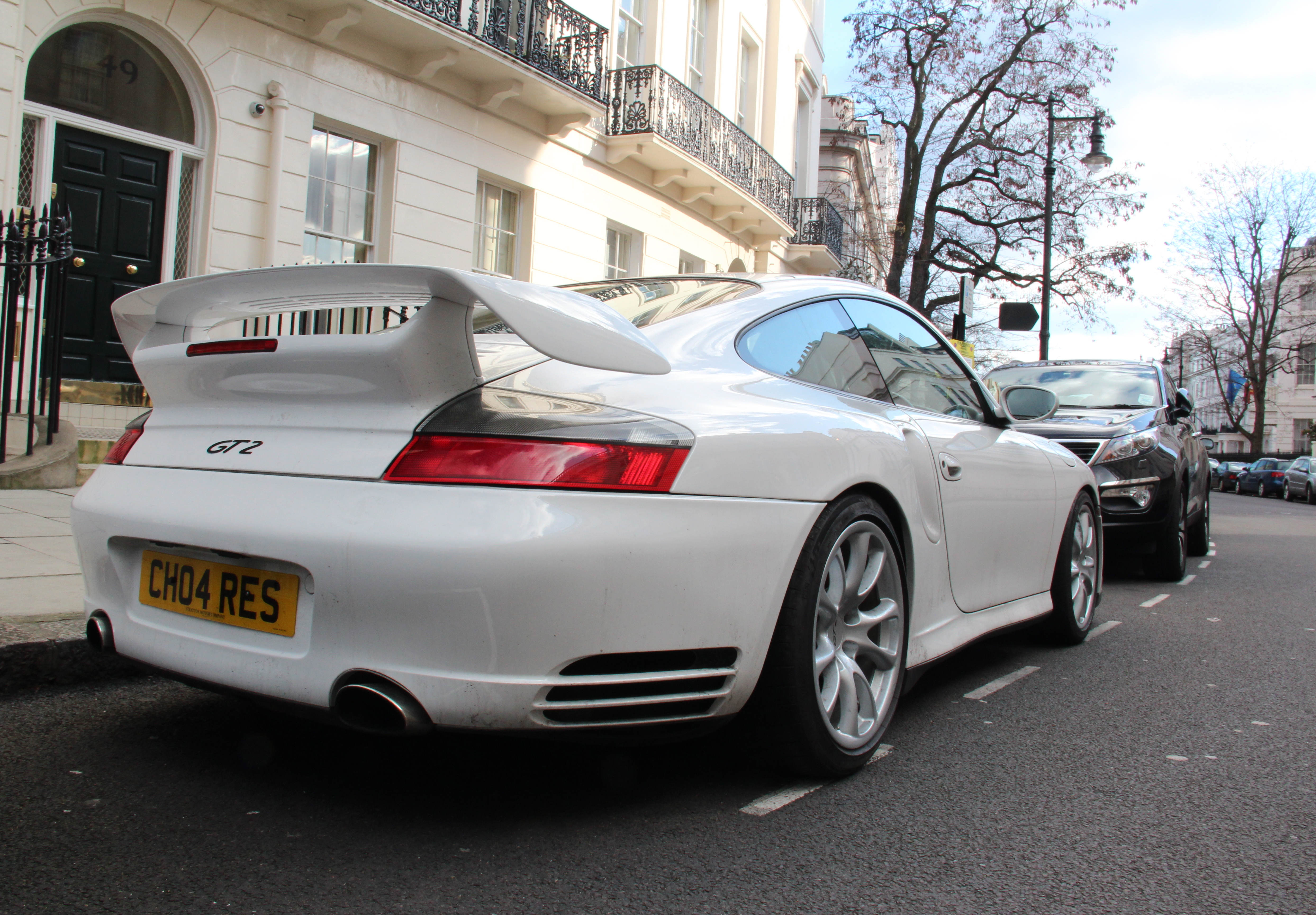 porsche GT2 white